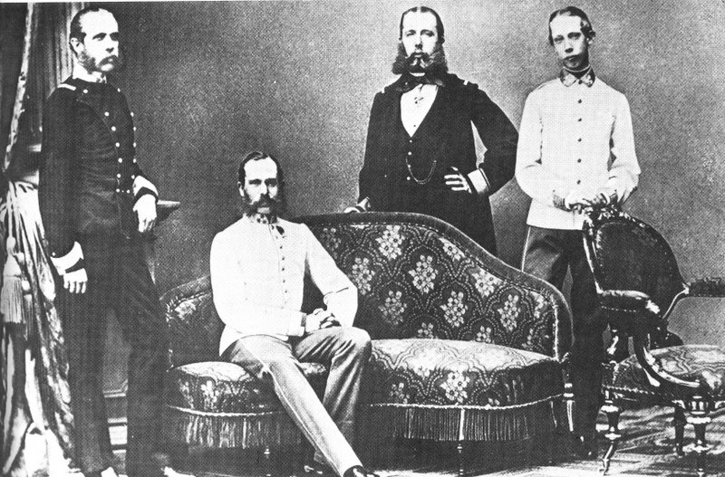 Franz Joseph, Emperor of Austria, King of Bohemia and Hungary with his brothers: From L to R: Archduke Karl Ludwig, Emperor Franz Joseph (sitting), Archduke Ferdinand Maximilian (later Emperor of Mexico), Archduke Ludwig Viktor